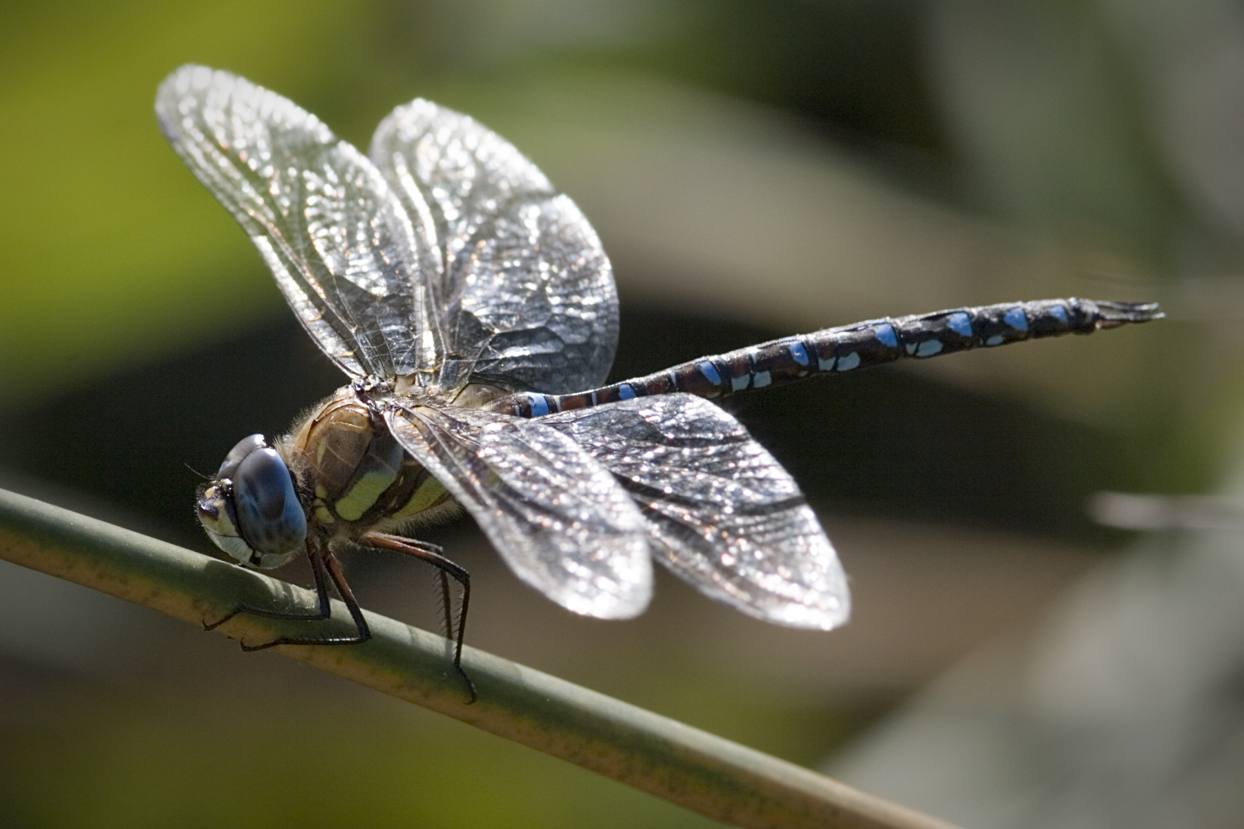 Common Hawker Dragonfly (Aeshna juncea), old male, taken at Milton Country Park, Cambridgeshire